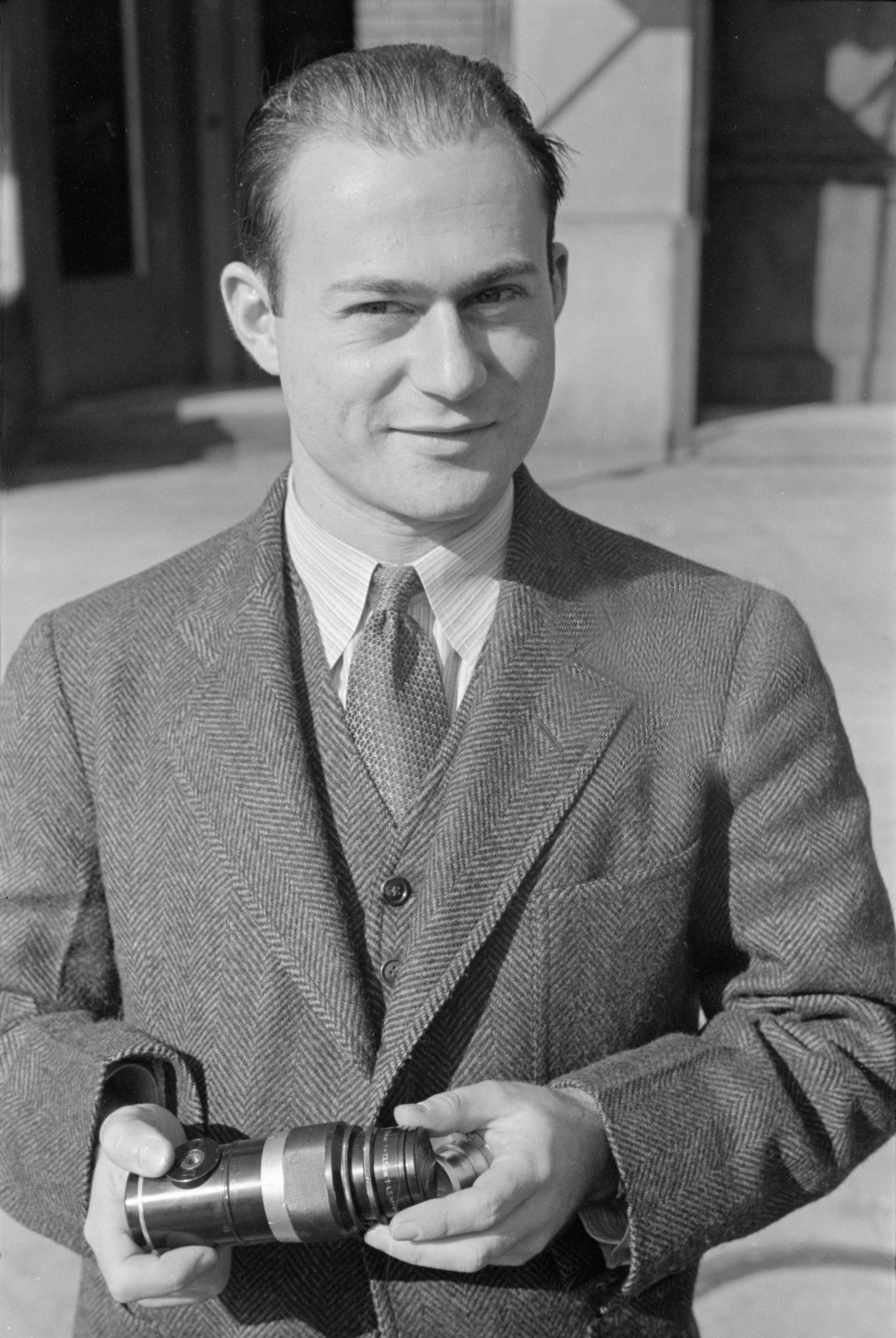 Photographer Arthur Rothstein on L Street in Washington, D.C.